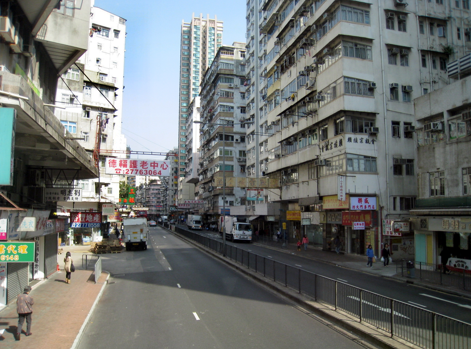 Tai Po Road Sham Shui Po Section 大埔道